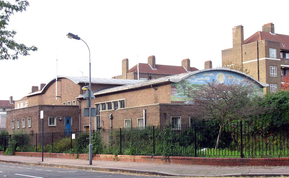 St Michael & St George, Commonwealth Avenue, London W12